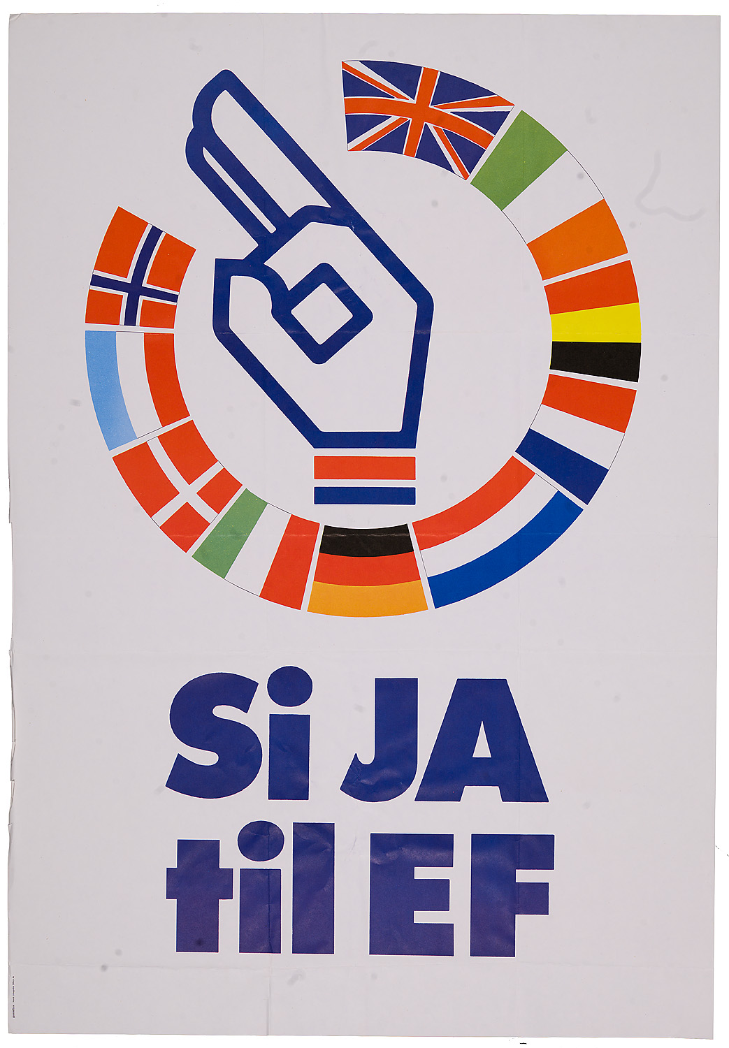 Image from National Archives of Norway's Flickr-Album "Protest" (all images marked with "No known copyright restrictions")